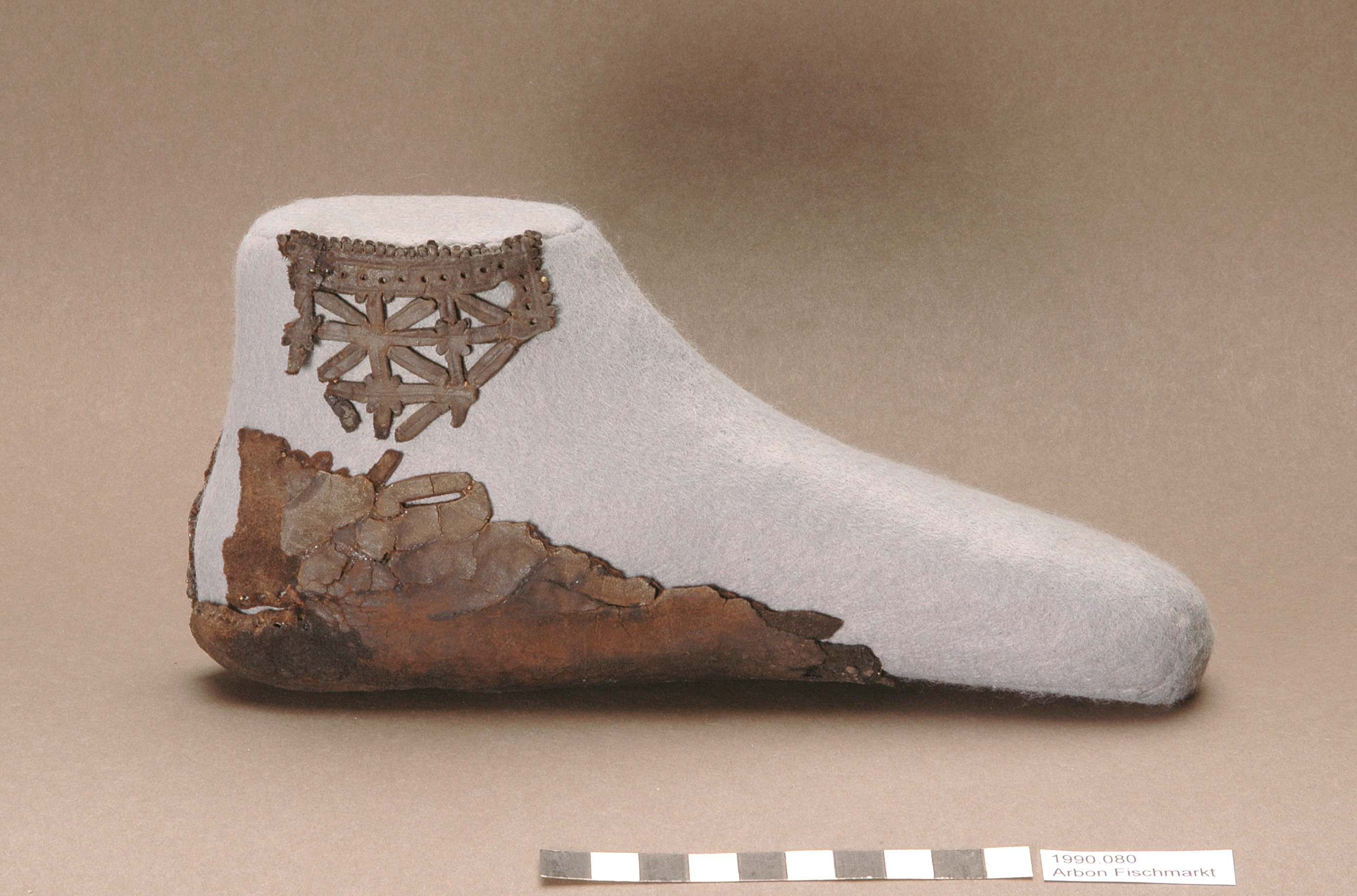 Roman shoe from Arbon (CH), found in the castle ditch.